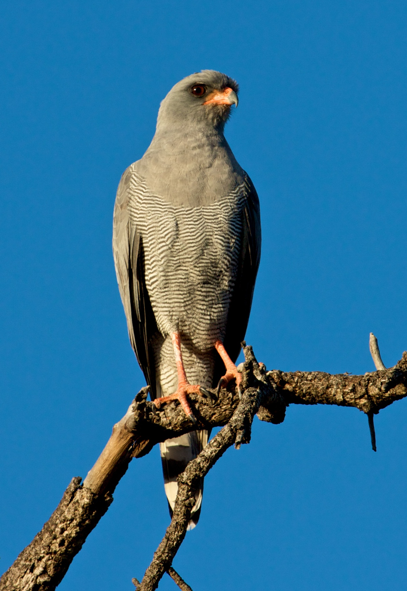 A Dark Chanting Goshawk at Kapama Game Reserve, South Africa.